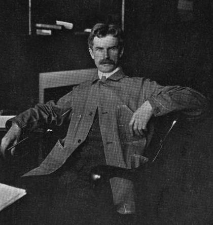 Photograph of American author and naturalist William J. Long, 1907.